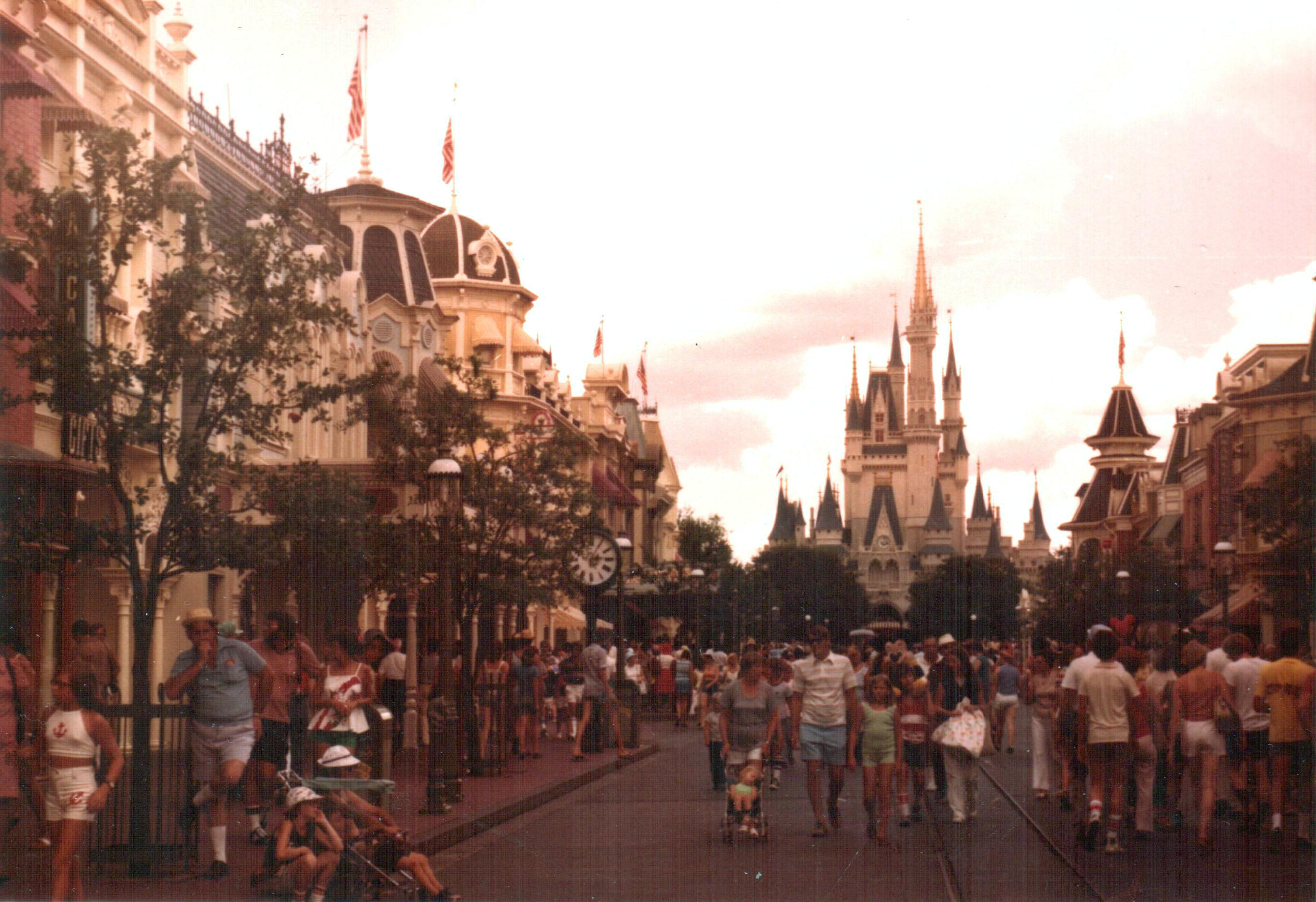 Live in Florida, august, 1977, United States of America. Disneyland.. Published under Creative Commons in the Metapolisz DVD line.